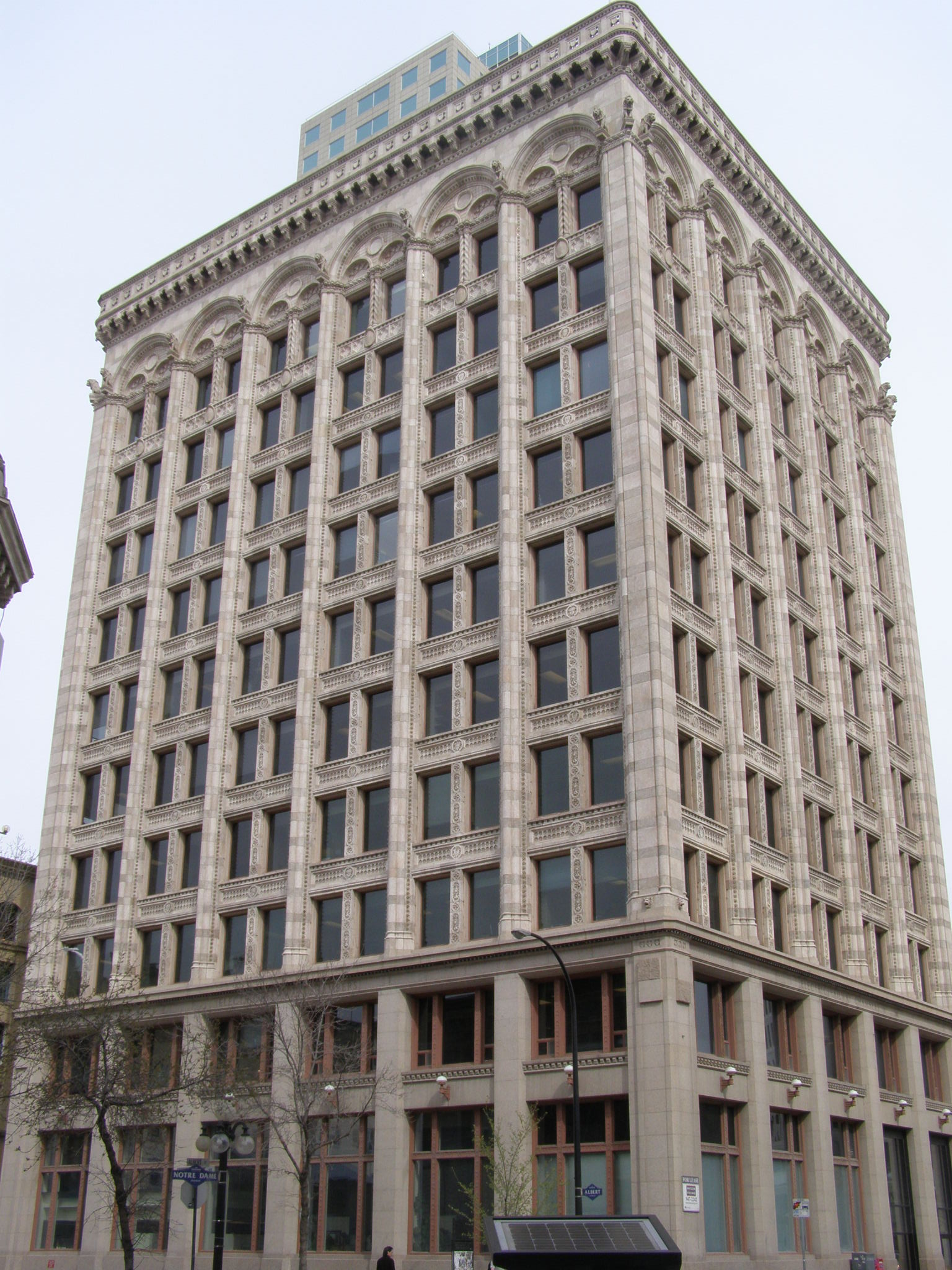 One of the skyscrapers in Winnipeg which earned the city the title "Chicago of the North" in the early 20th century.